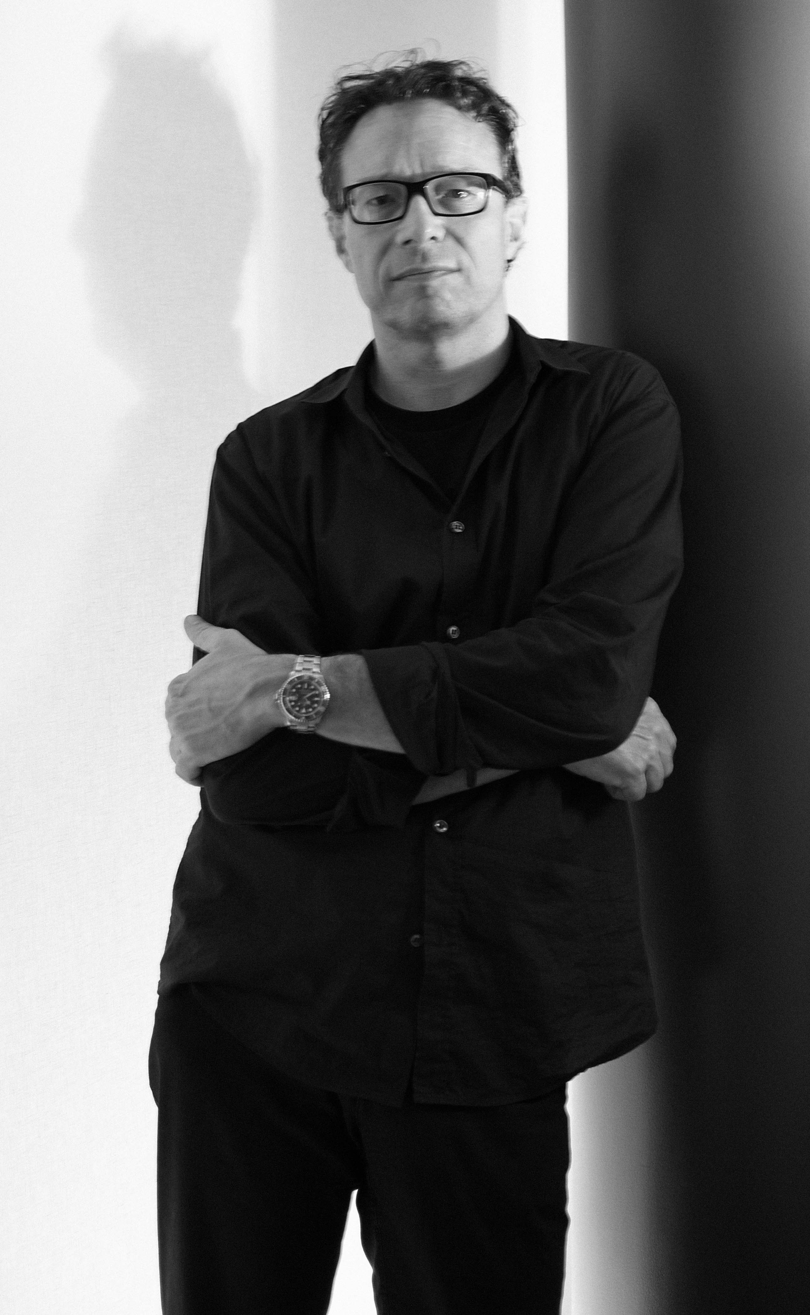 Marco Brambilla official photo